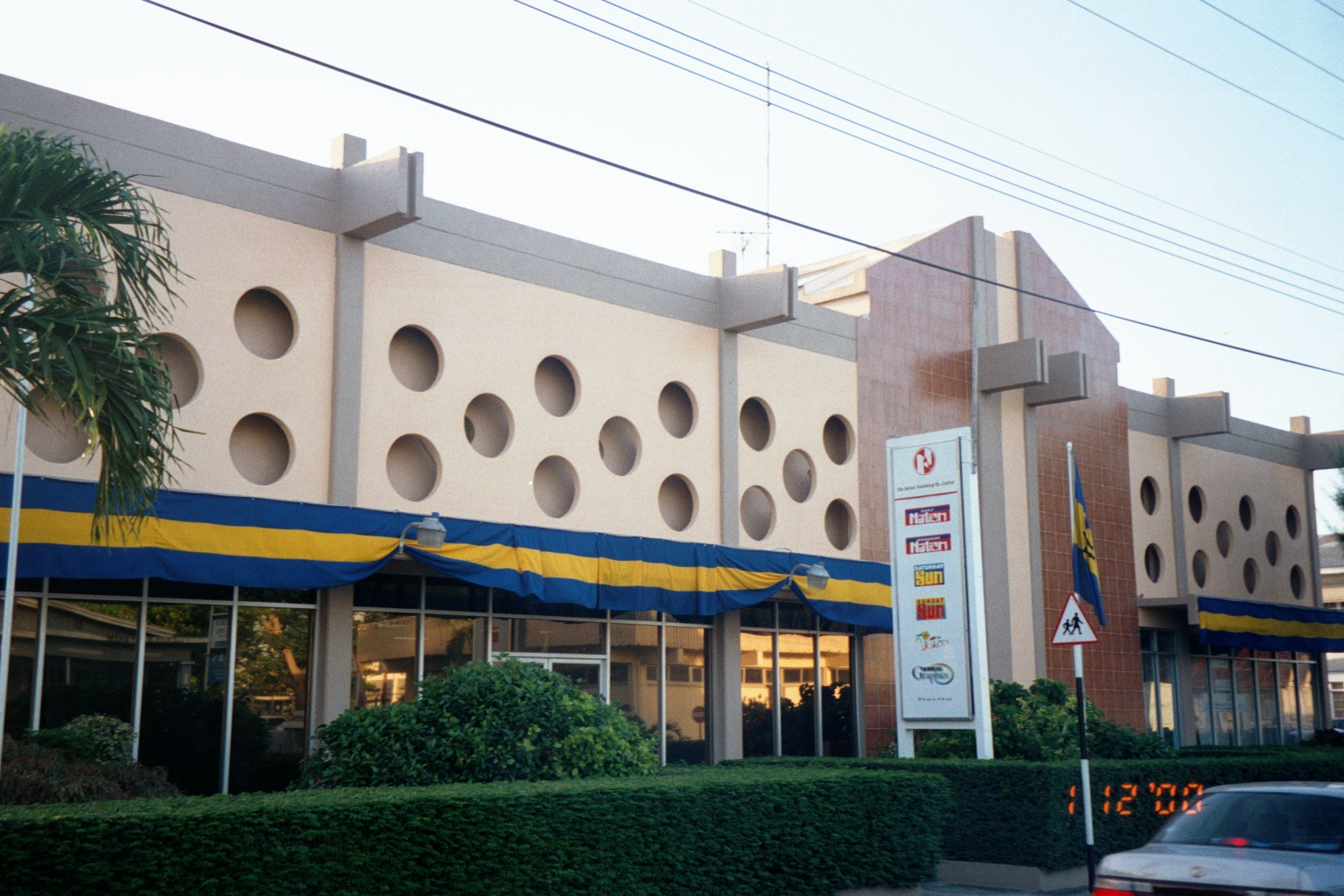 The Daily Nation newspaper of Barbados. Currently a division of ONE Caribbean Media.